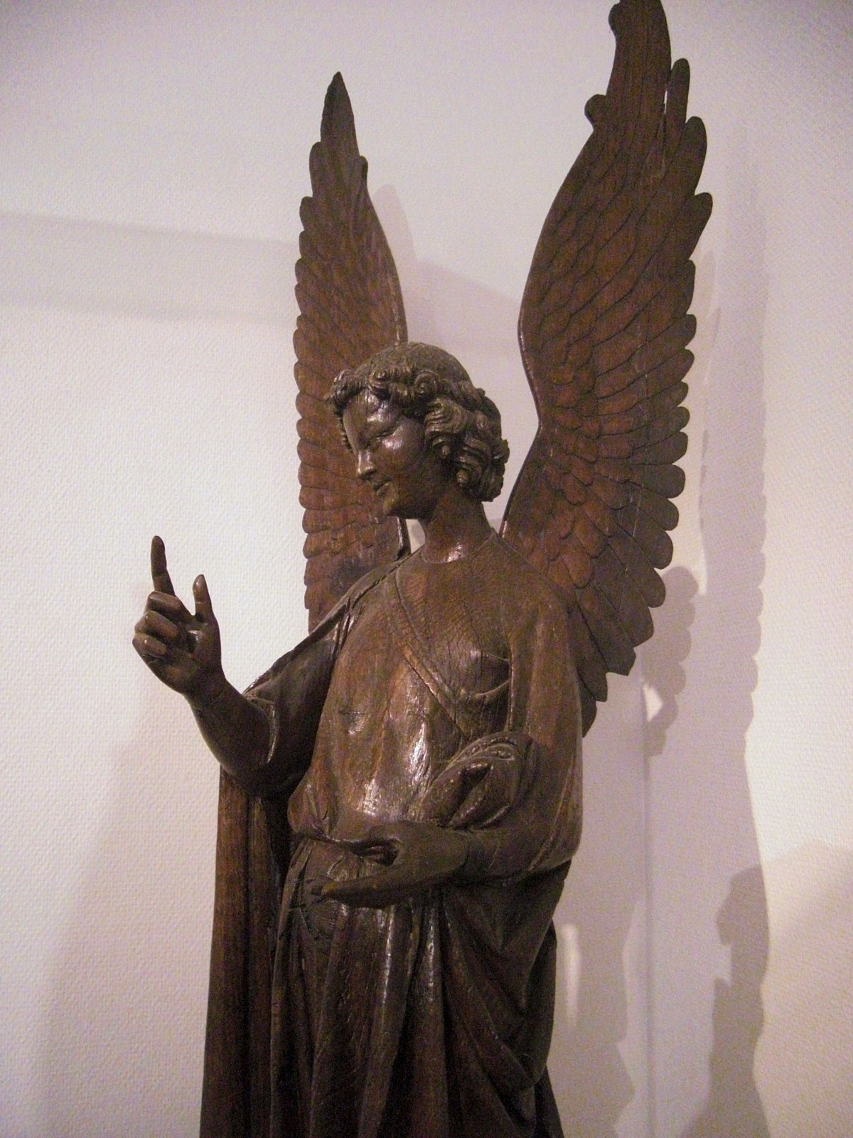 Angel of Humbert (right angel). Arras Art Museum. 13th century. Oak, 1,30 m